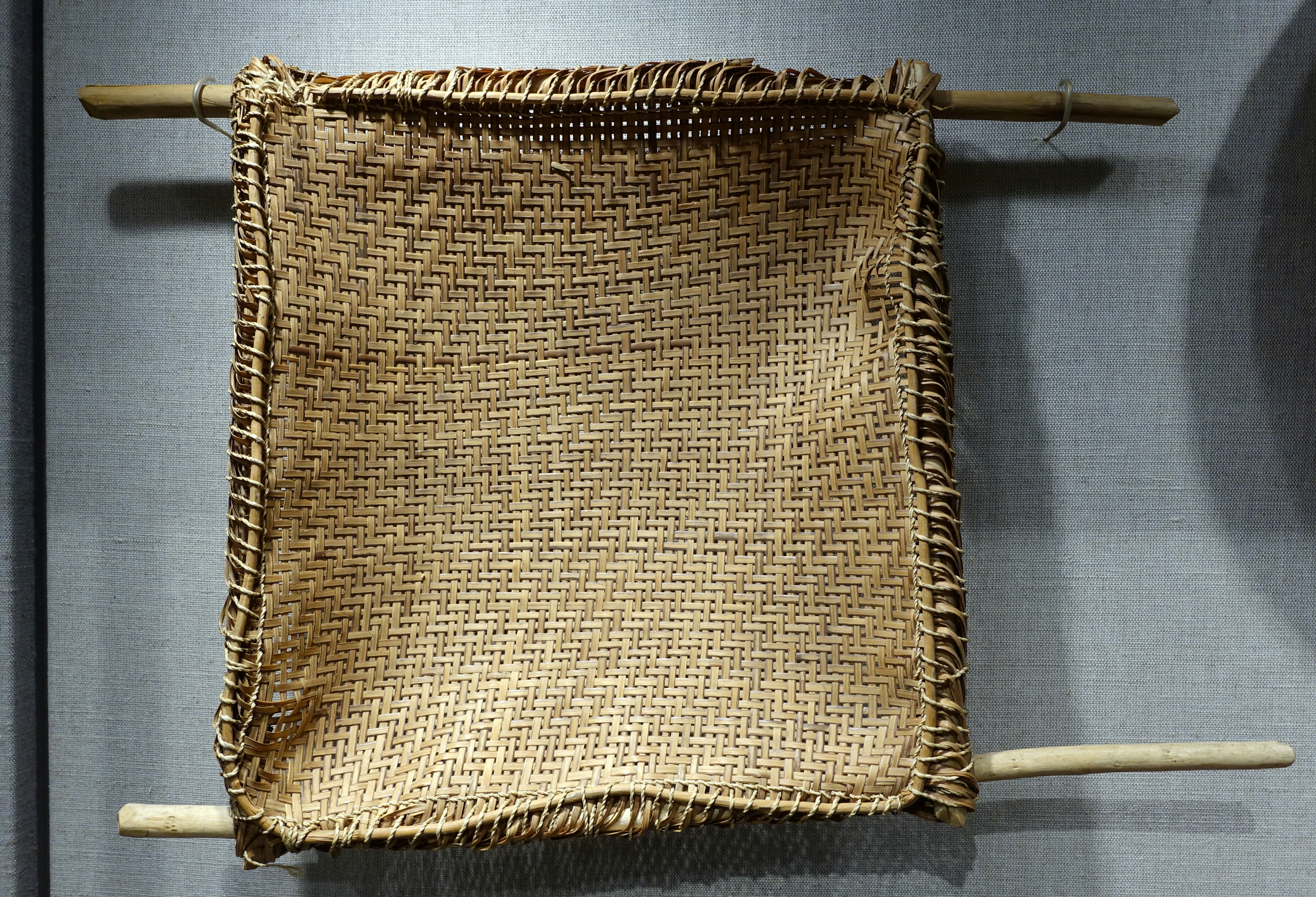 Exhibit in the Spurlock Museum, University of Illinois at Urbana-Champaign - Urbana-Champaign, Illinois, USA. This work is old enough so that it is in the public domain.